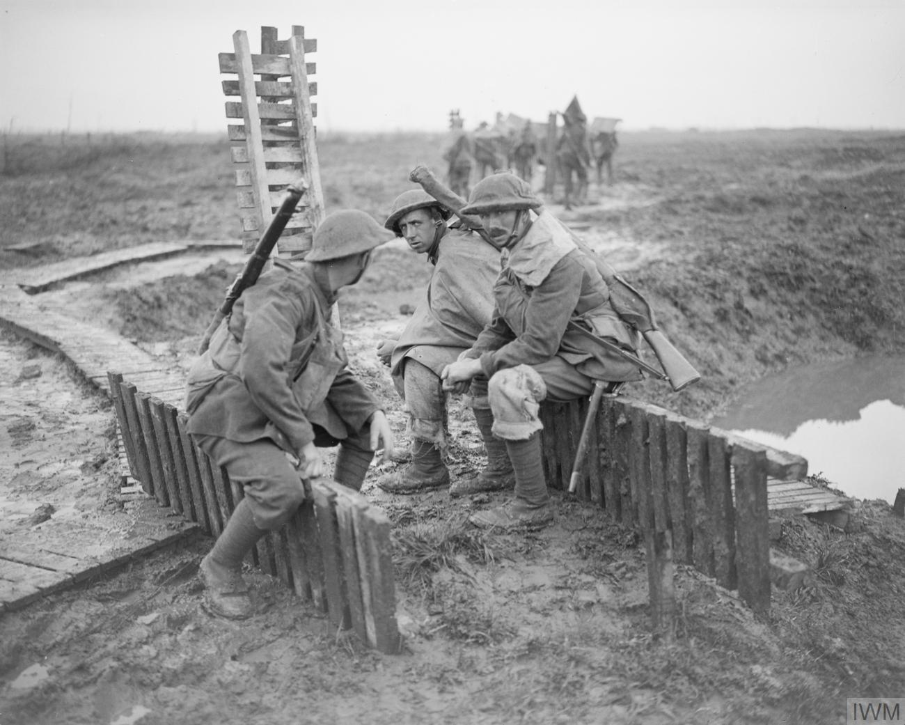 Irish Guards taking a rest between carrying duckboards, near Langemarck, 10 October 1917.